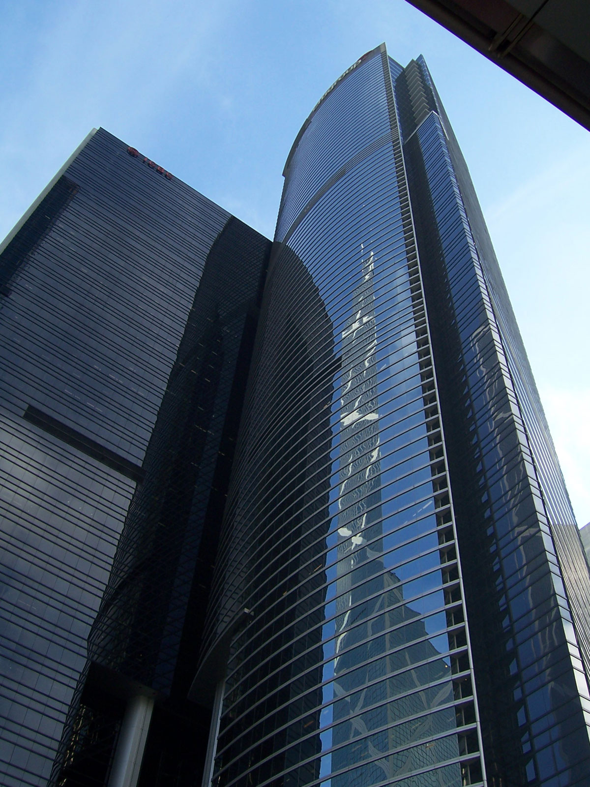 The Citibank Tower and the ICBC Tower of the Citibank Plaza, at 3 Garden Road, Central, Hong Kong Island, Hong Kong. The Bank of China Tower is in the reflection. Taken by Enoch Lau on 29 December 2005. As a courtesy, please let me know if you alter this image or this image description page. Thanks go to User:HenryLi and User:Instantnood for identifying this image. Original filename was 100_0835.JPG.